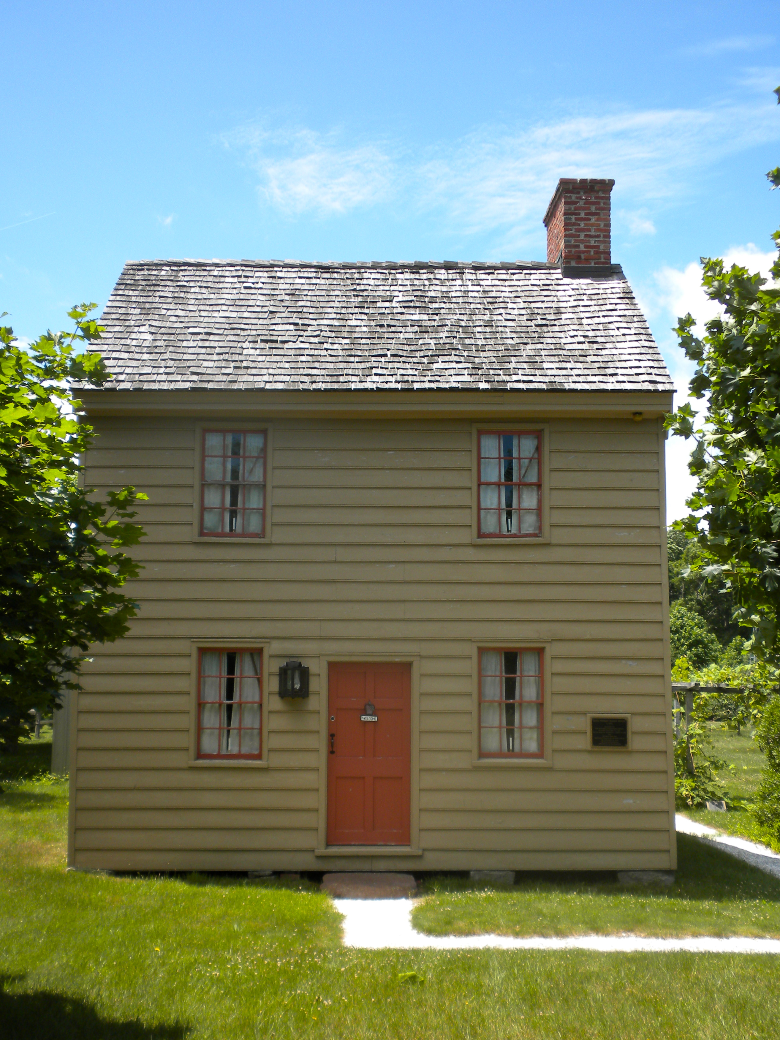 John Wesley Gandy House on the NRHP since November 12, 1999. At 26 Tyler Rd., near Greenfield, in Upper Township, Cape May County, New Jersey. Nice collection of objects nearby.